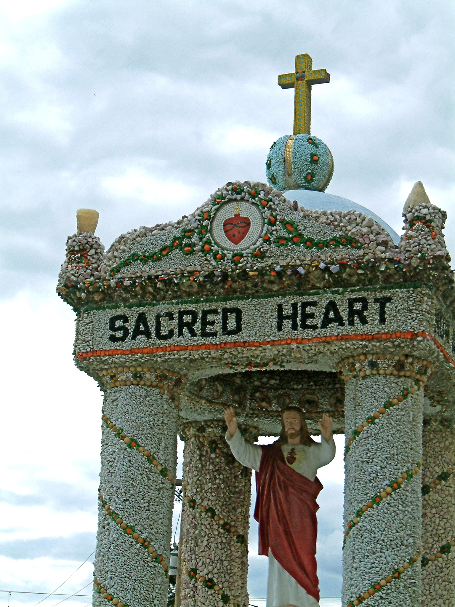 The Dickeyville Grotto, created by Father Mathias Wernerus, Dickeyville, WI. To learn more, visit detour art